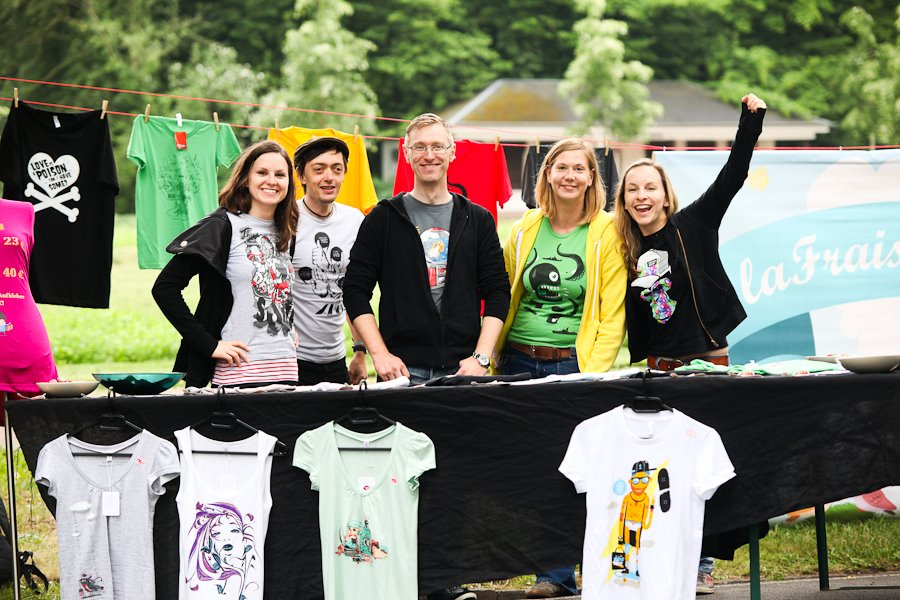 T-Shirt Day 2012 in Leipzig